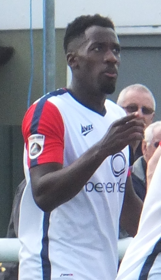 Amari Morgan-Smith playing for York City against Leamington at the New Windmill Ground, Bishop's Tachbrook on 14 October 2017